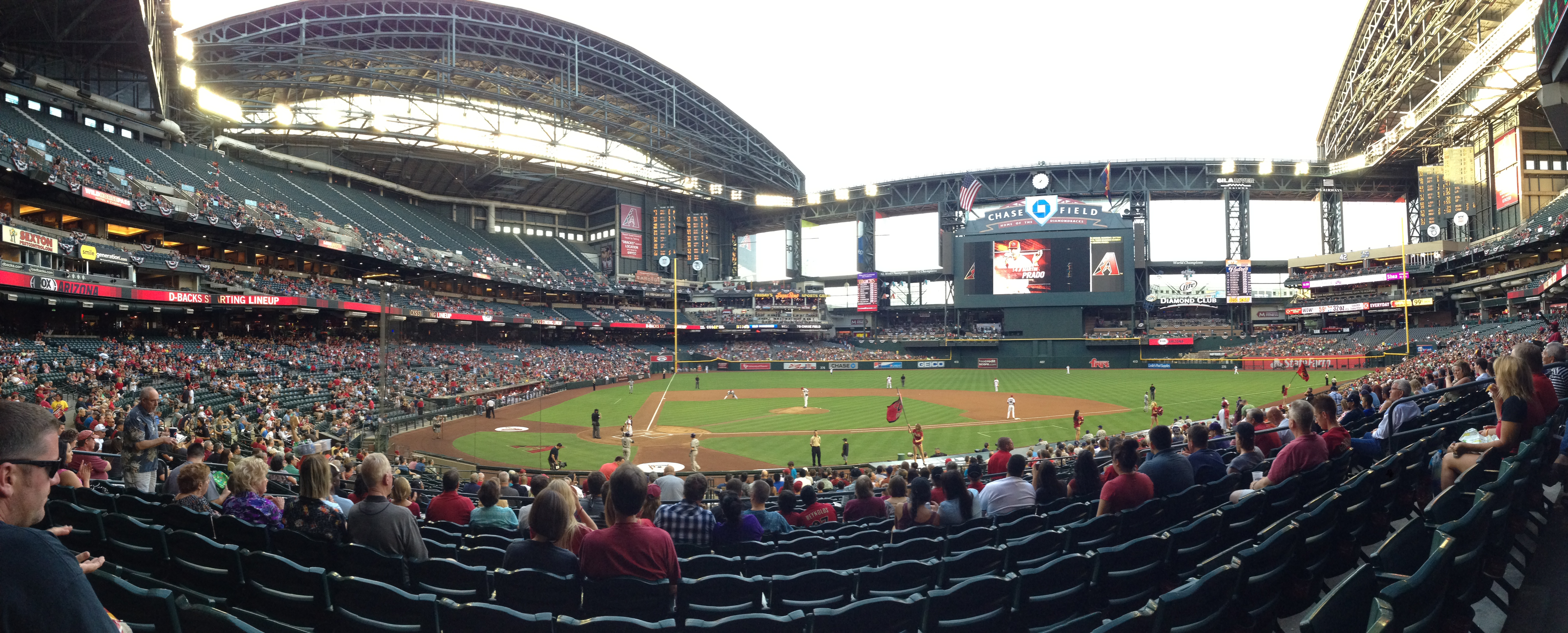 The view from seats in Section 118 at Chase Field during a game between the Arizona Diamondbacks and the San Diego Padres.